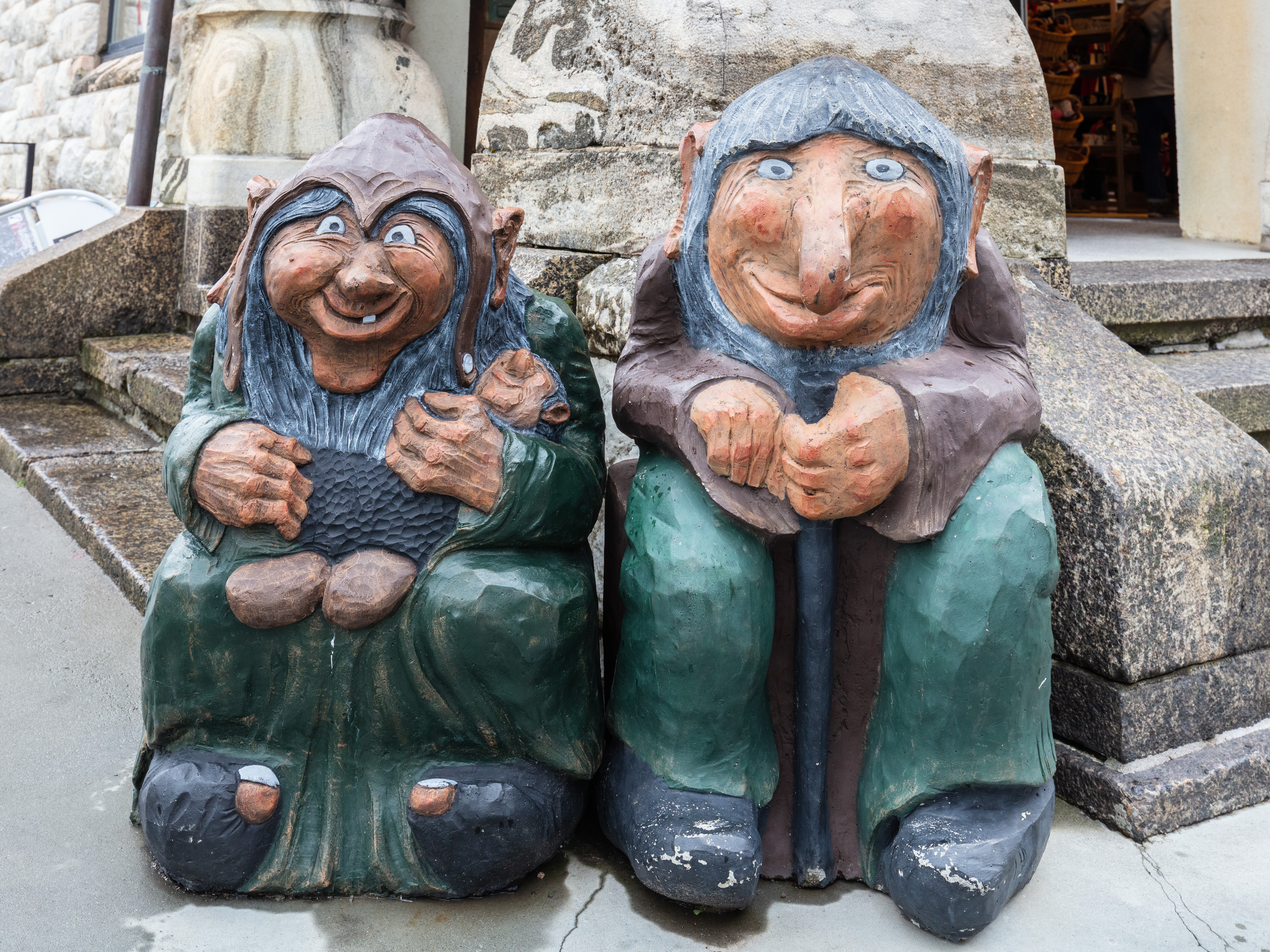 Trolls, Ålesund, Norway